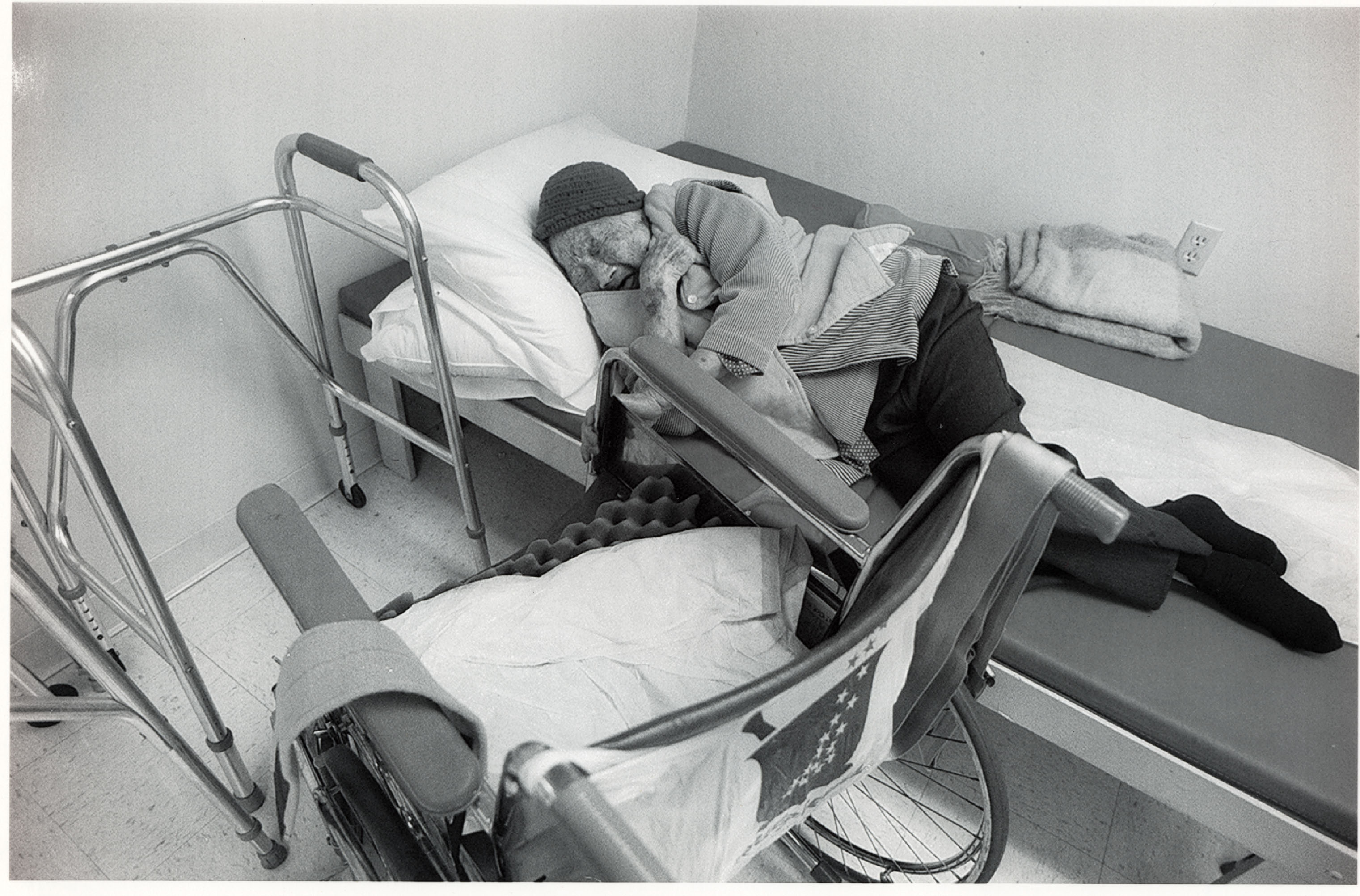 A senior takes a rest at On Lok Senior Health Services in San Francisco, mid 1970's.